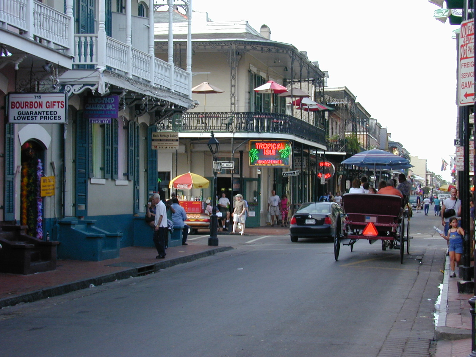 Bourbon Street, New Orleans. Picture taken by Jan Kronsell, June 2002.